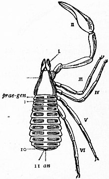 Garypus litoralis, one of the Pseudoscorpiones. Dorsal view. I to VI, The prosomatic appendages. o, Eyes. prae-gen, Prae-genital somite. 1, Tergite of the genital or first opisthosomatic somite. 10, Tergite of the tenth somite of the opisthosoma. 11, The evanescent eleventh somite of the opisthosoma. an, Anus.(Original.)